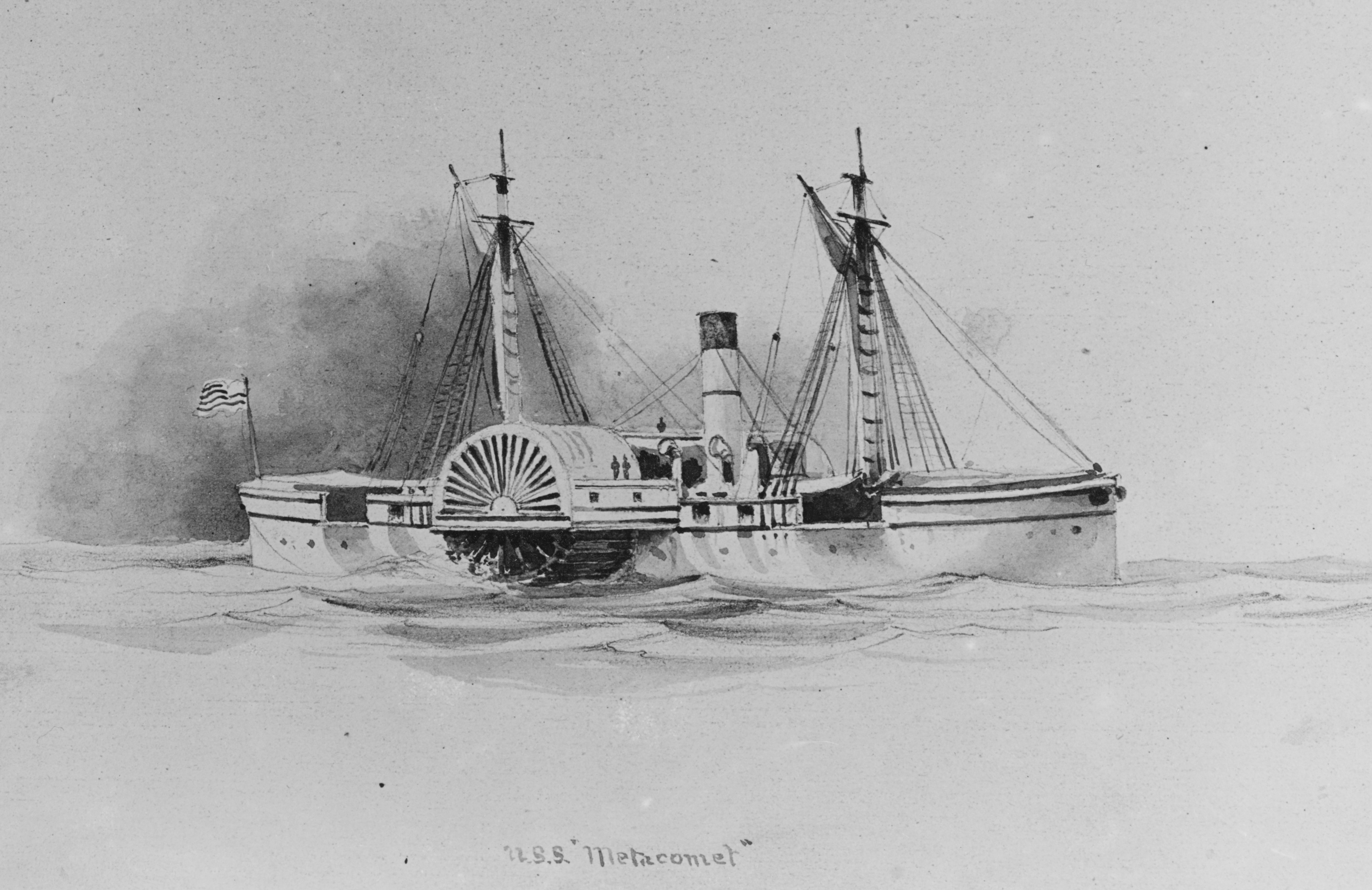 The gunboat USS Metacomet, built in New York in 1863.